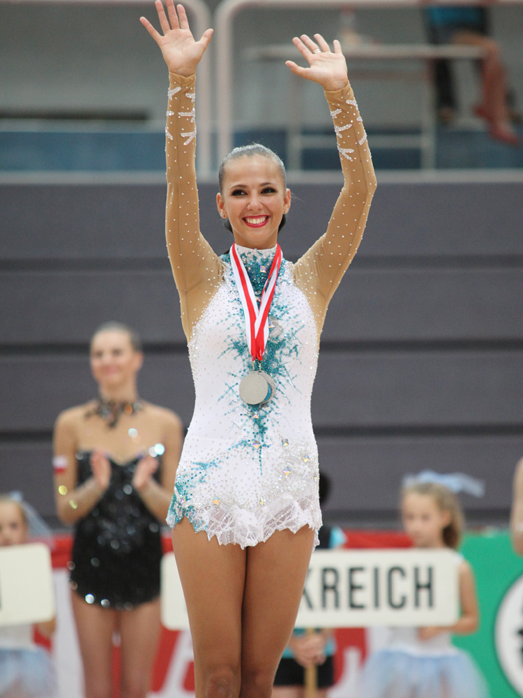 Grand Prix Rhythmic Gymnastics in Austria (Hard) 2012. Daria Dmitrieva.